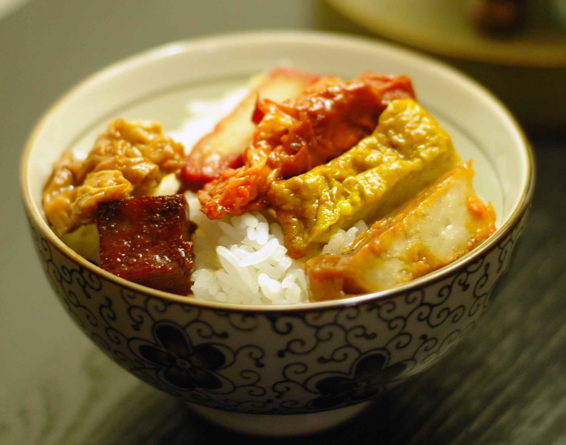 Vegetarian braised mock meat(Lou mei) on a bowl of rice.